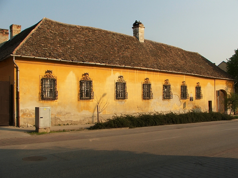 Kamalduli-houses, Tata Hungary